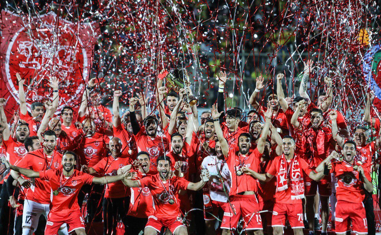 FC Persepolis trophy celebrations. 2018–19 Persian Gulf Pro League.